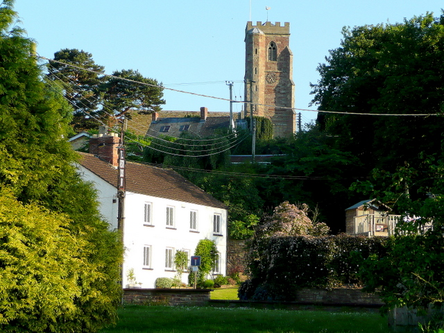 View south across the main street at Weston-under-Penyard, Herefordshire, toward the red sandstone tower of St Lawrence's parish church